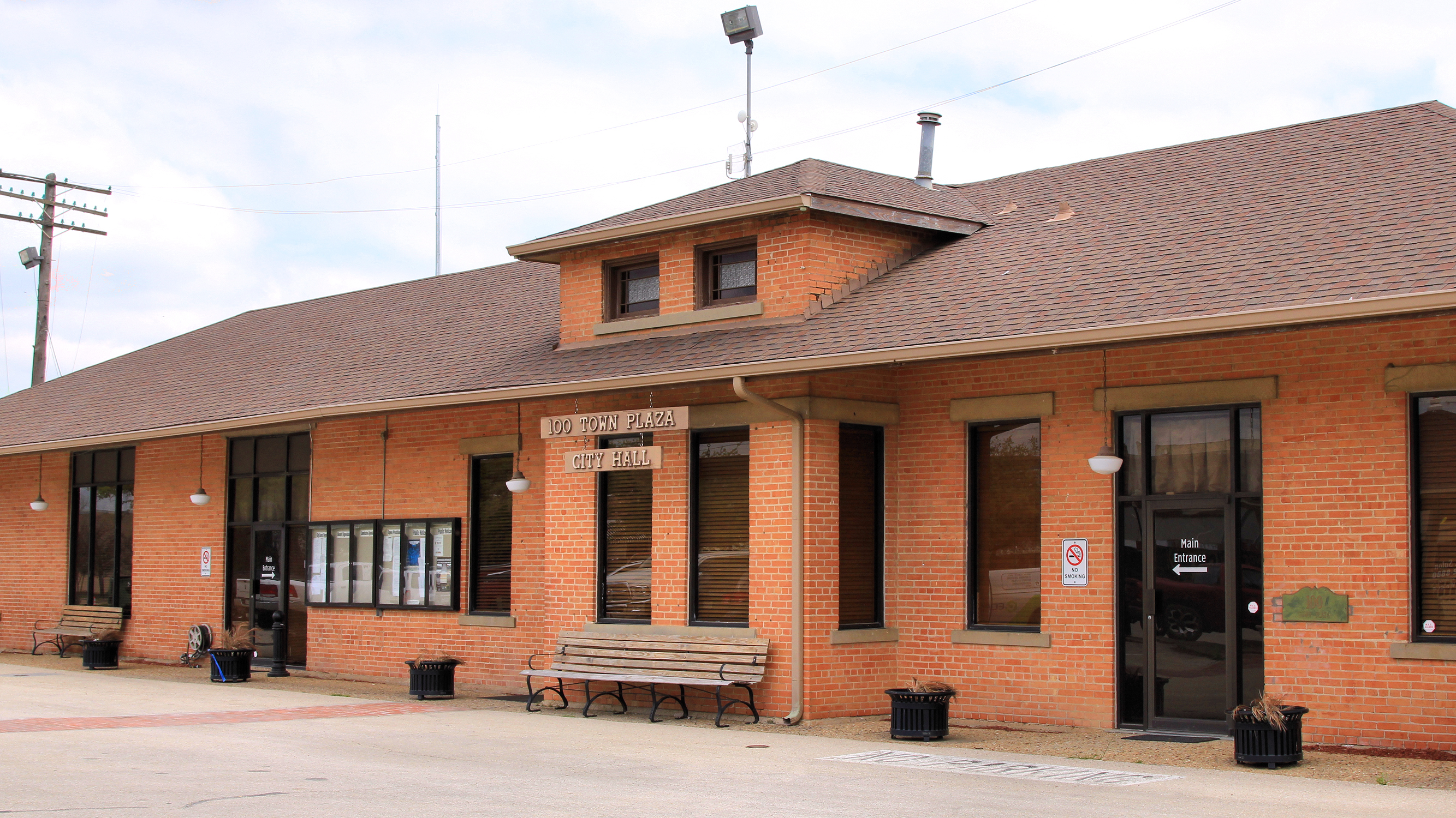 Ferris Texas City Hall